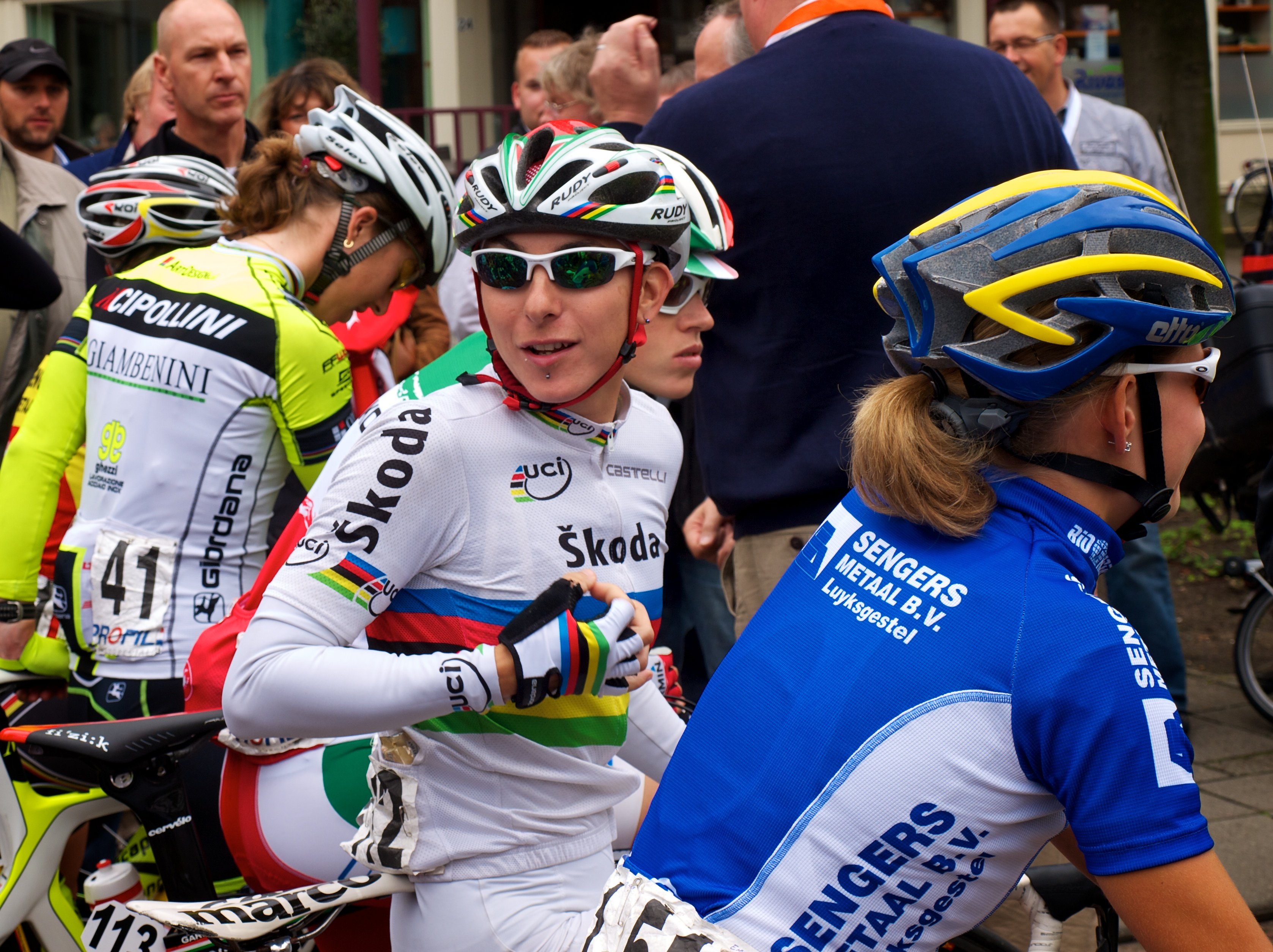 Nicole Cooke (left), Giorgia Bronzini (centre), Noemi Cantele (behind Bronzini), Emma Johansson (right). Stage 4 of 2011 Holland Ladies Tour in Papendrecht, The Netherlands.